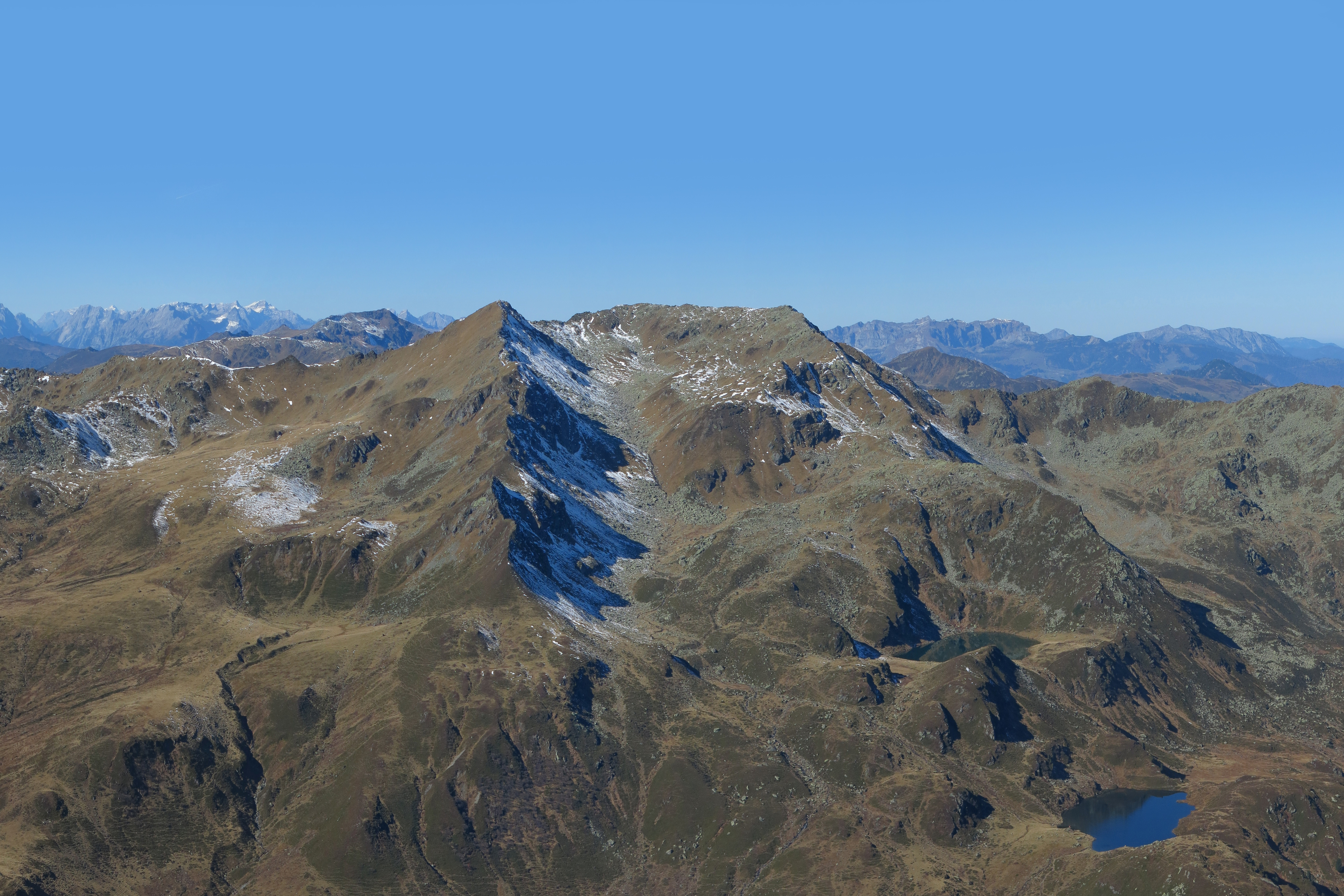 View from Kröndlhorn to Schafsiedel in the Kitzbühel Alps